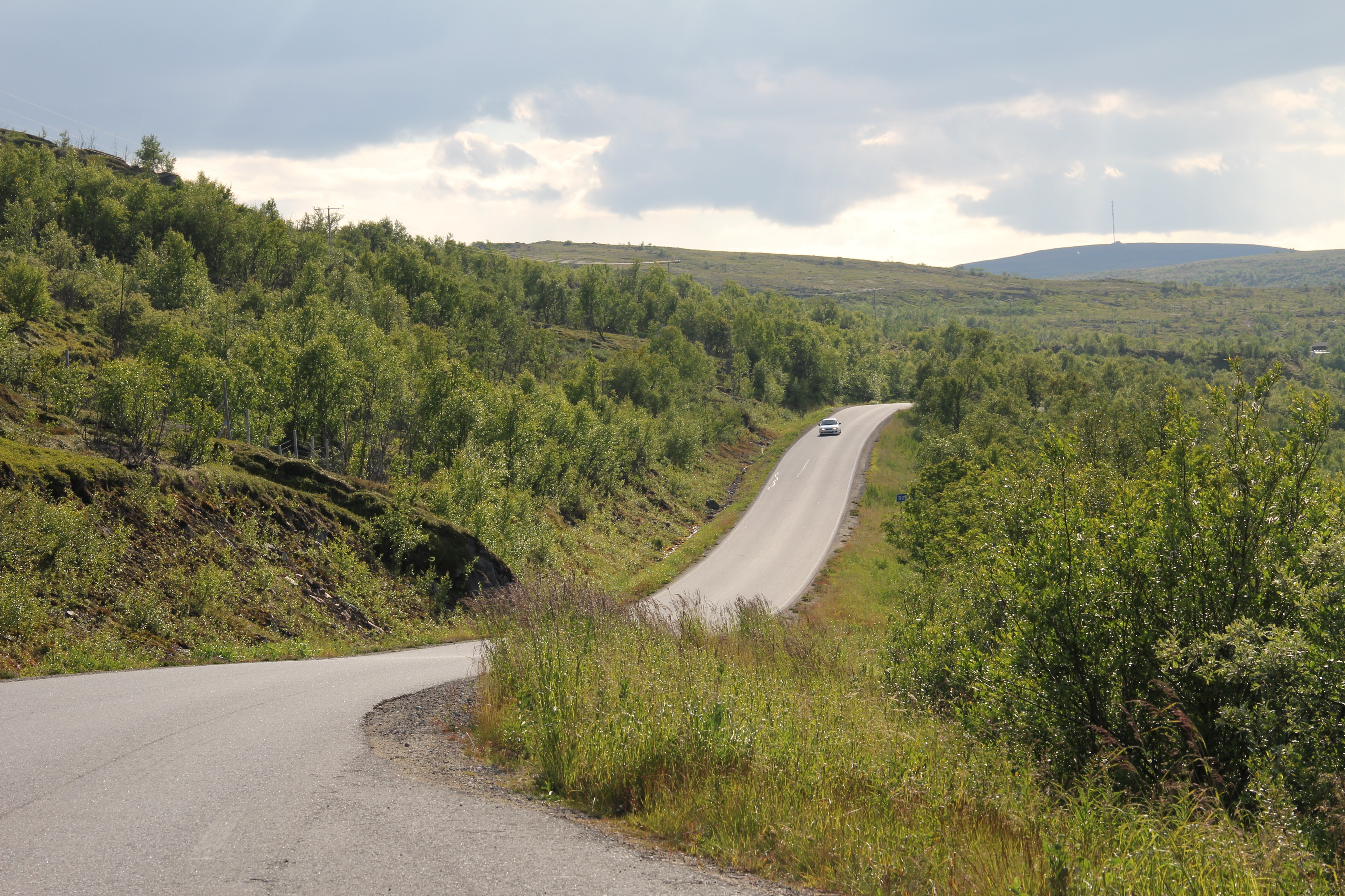 National road 970 near Boratbokca, Utsjoki, Finland. -Backgroud: Njallavárri fell with broadcastins mast.